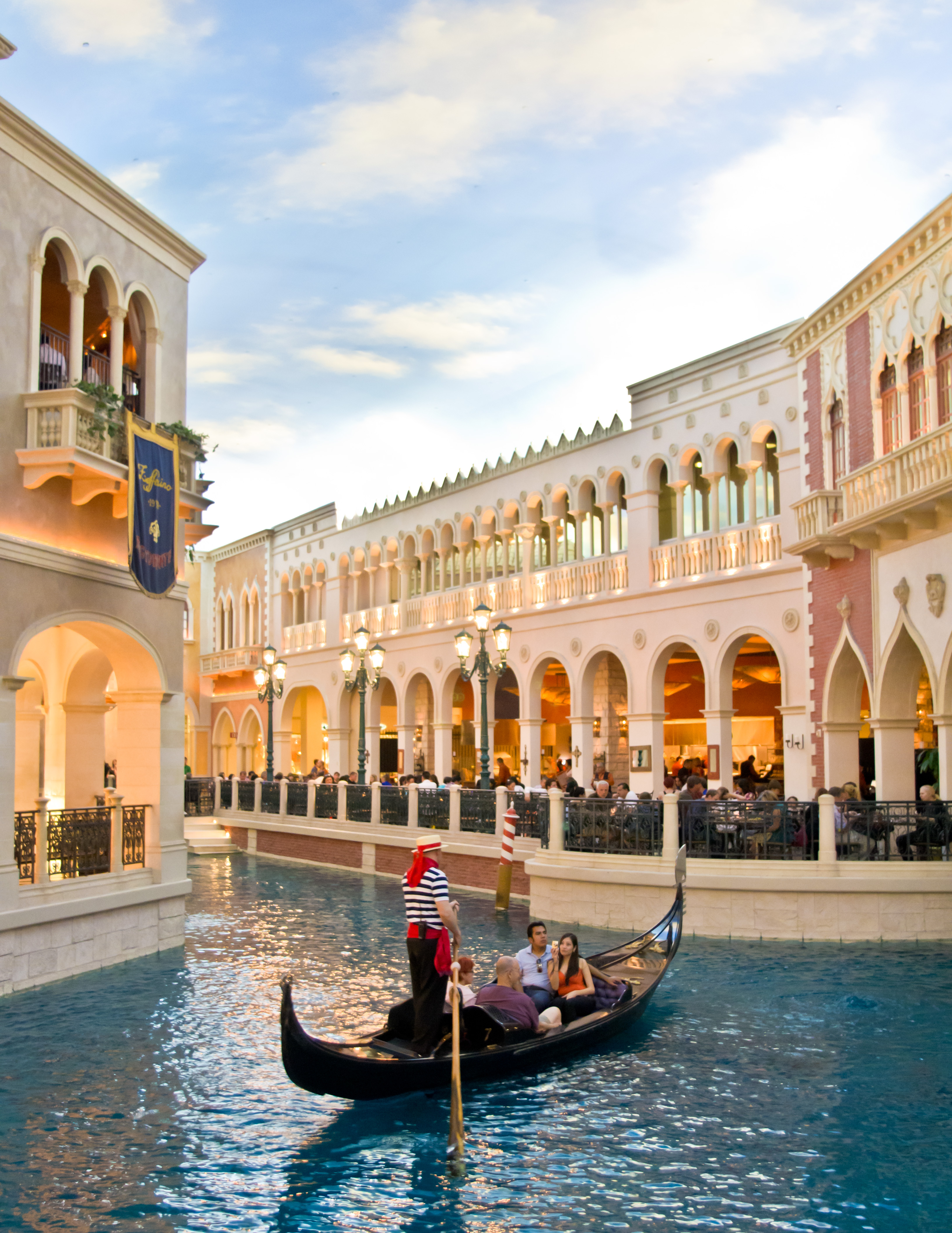 The Venetian hotel (Las Vegas)